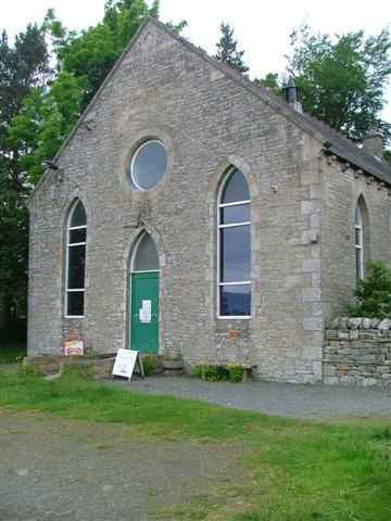 Durham Wildlife Trust visitor centre, Bowlees, County Durham, converted from a former chapel